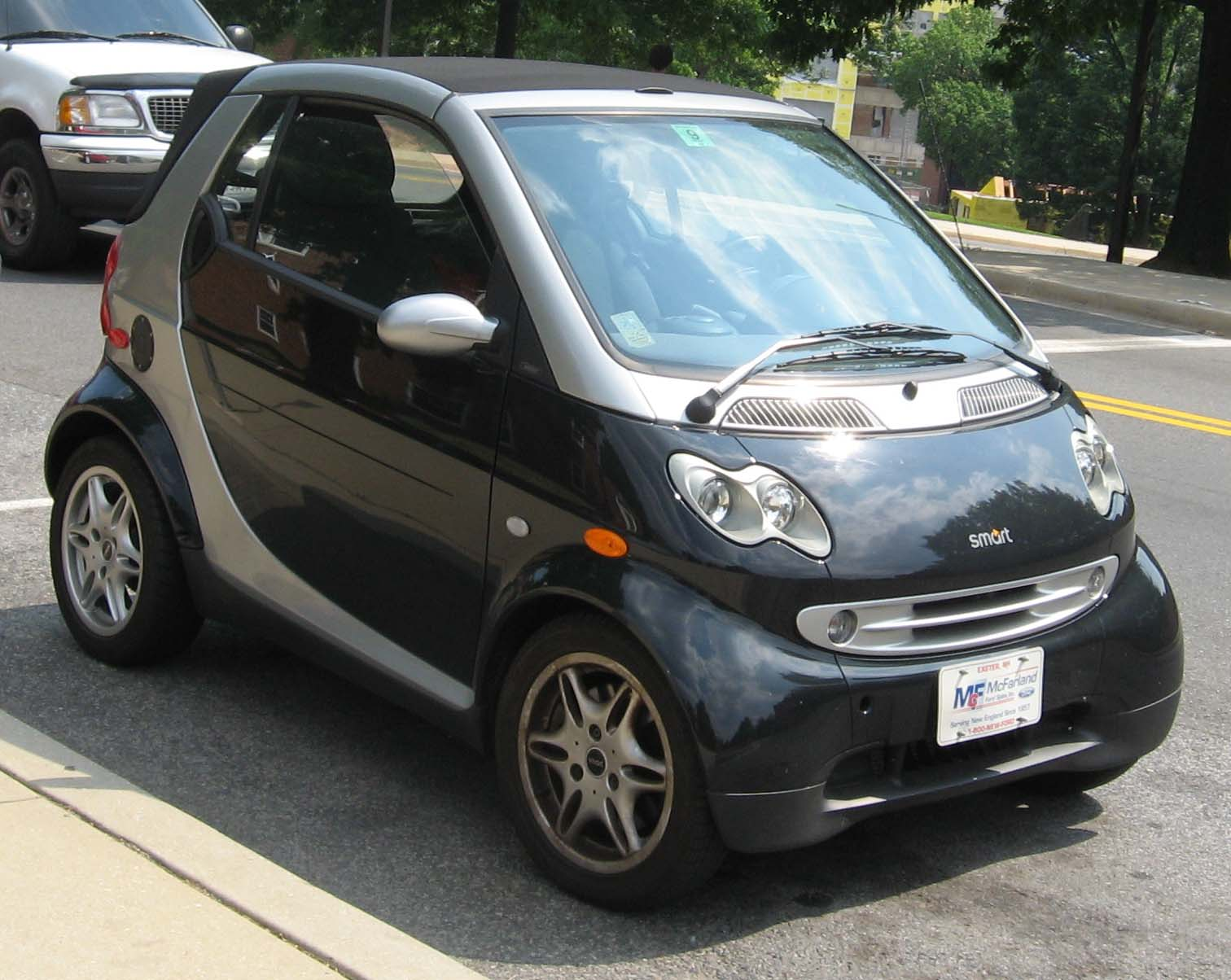 Smart ForTwo photographed in USA.